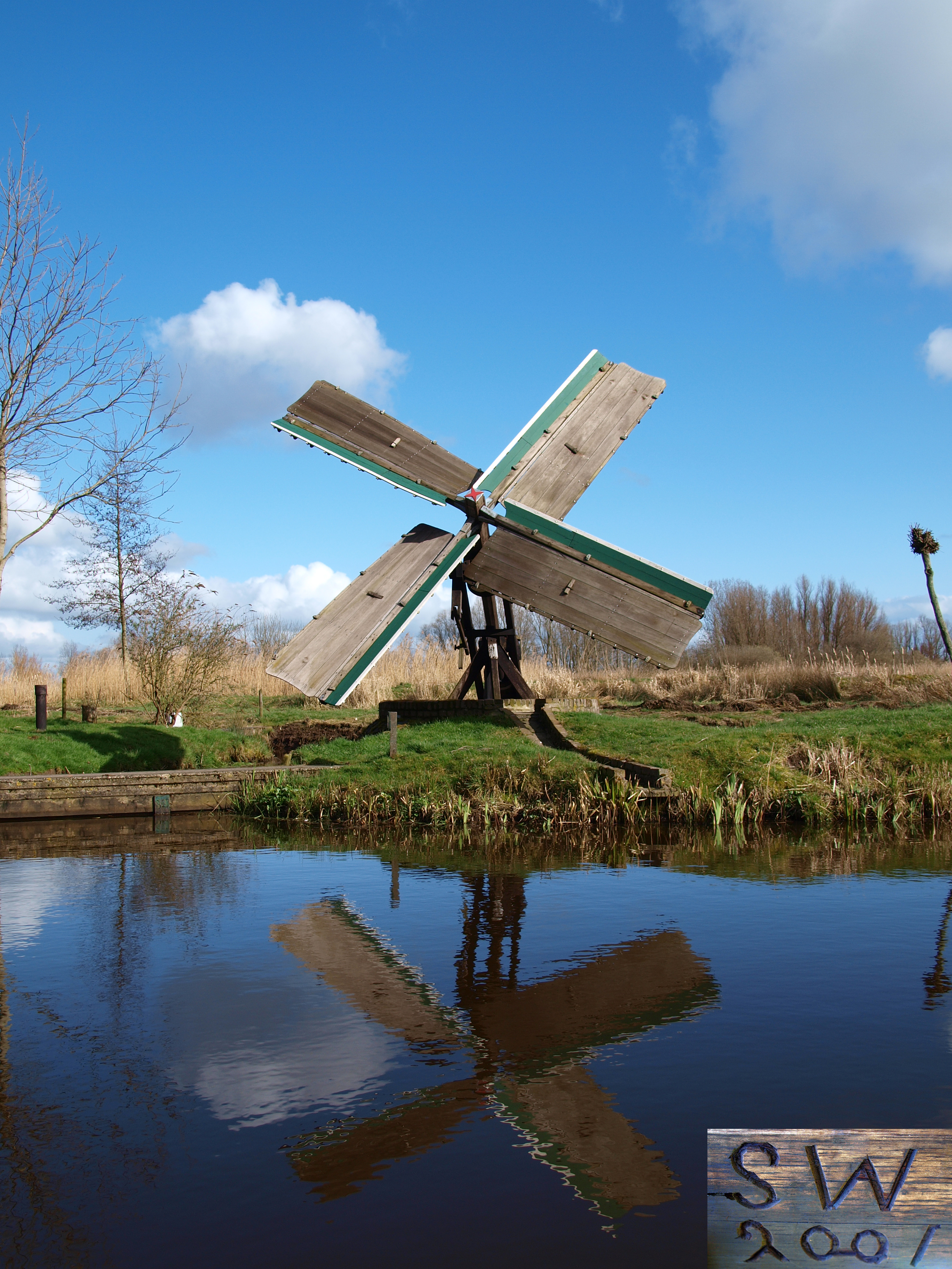 a Tjasker windmill in Grou, Friesland, The Netherlands